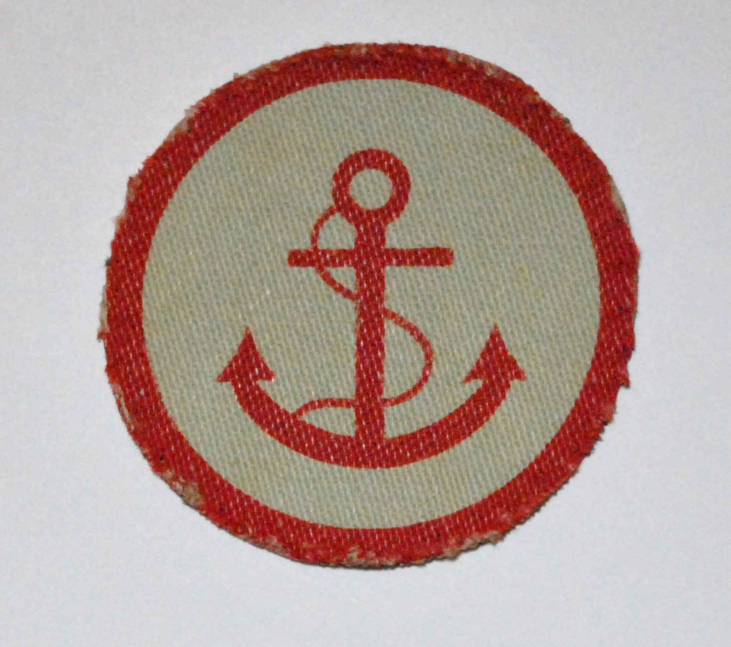 Shouler insignia worn by British beach groups